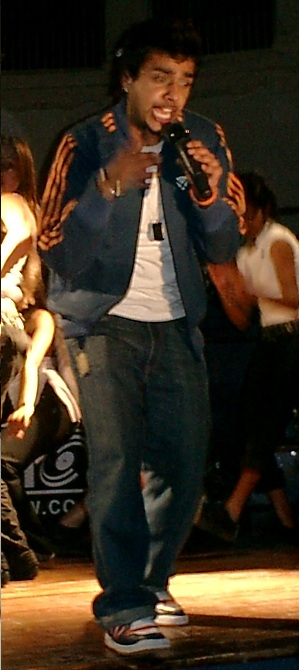 Juggy D performing in Oxford Town Hall